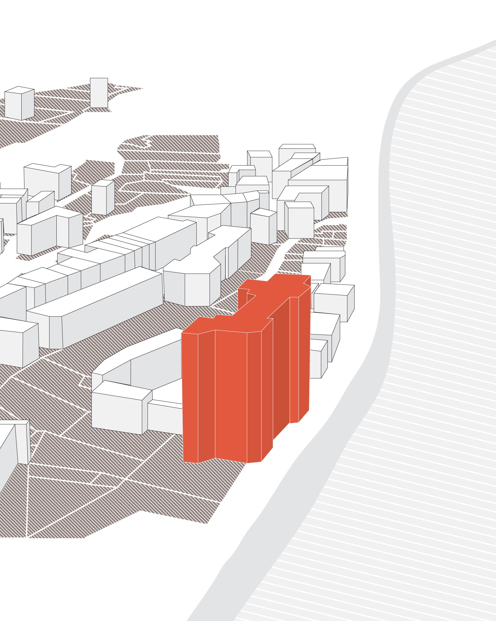 Map of the Château de Montsoreau-Museum of contemporary art in France, Loire Valley World Heritage. On the right side, the Loire river. On the left side: the village of Montsoreu. On the back, the bridge of Montsoreau.